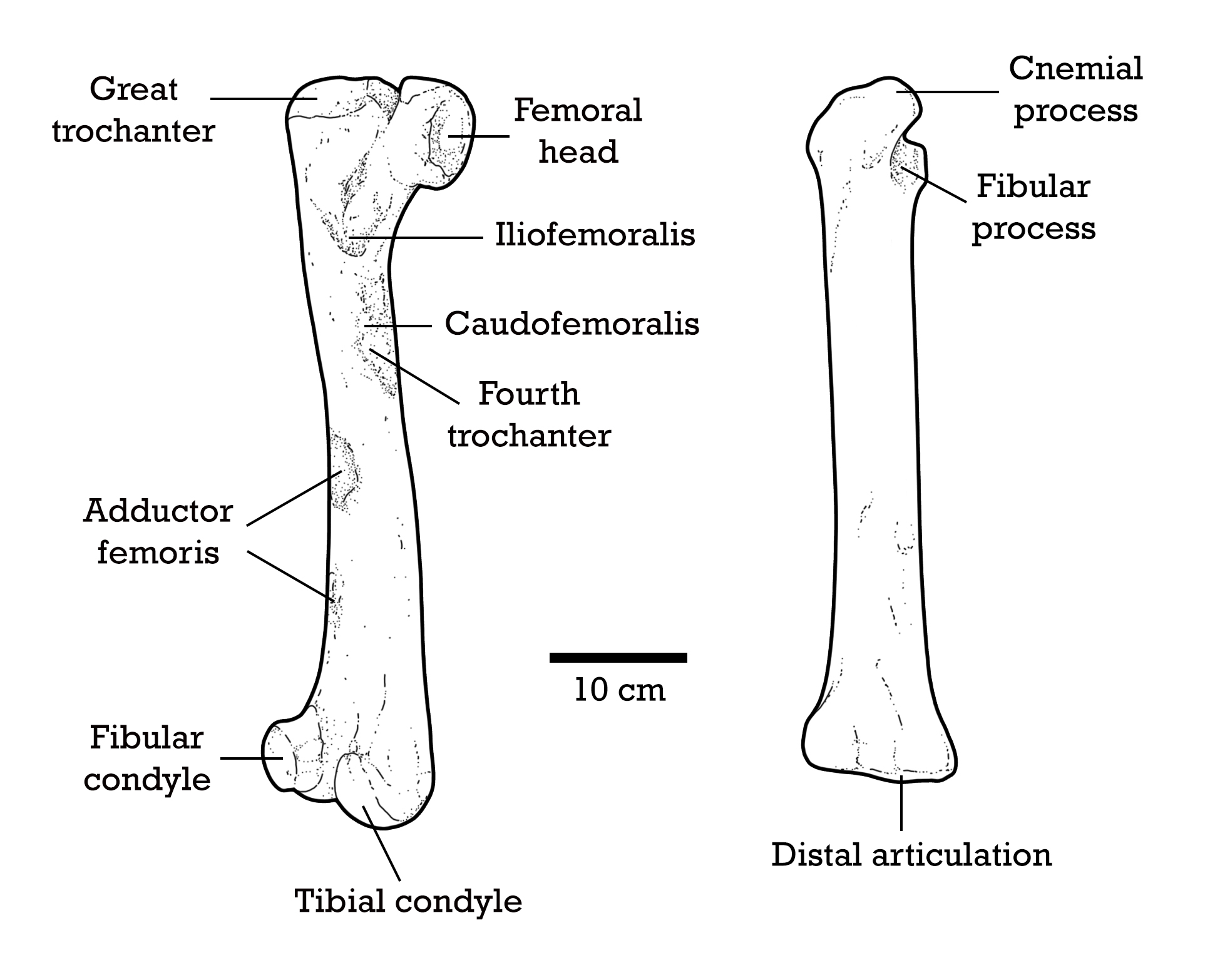 Anatomial diagram indicating the preserved tissue traces on the femur and tibia of Achillobator giganticus, holotype MNUFR-15. Femur on posteromedial view and tibia in anterior view. Based on Perle et al. 1999 and Turner et al. 2012.[1][2] Adductor femoris - Iliofemoralis - Caudofemoralis= Muscles __________________________________________________________________________________________________________________